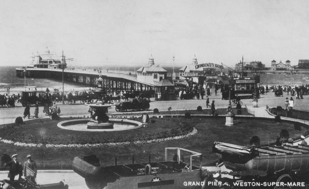 The Grand Pier at Weston-super-Mare, Somerset, England before it was damaged by fire in 1930. The postcard was used in 1927 but the picture was probably taken before that.